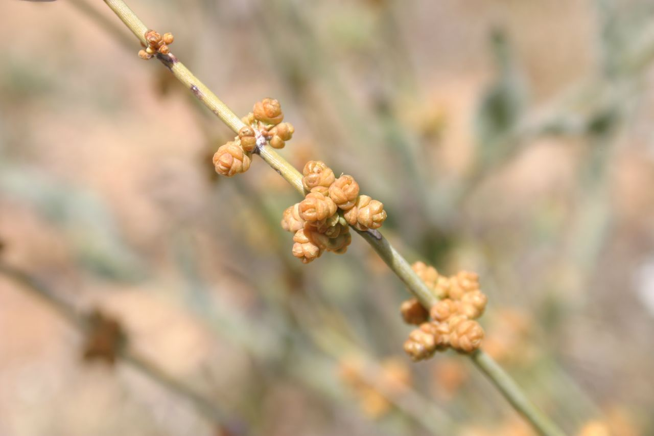 Ephedra nevadensis, Acton, Los Angeles County